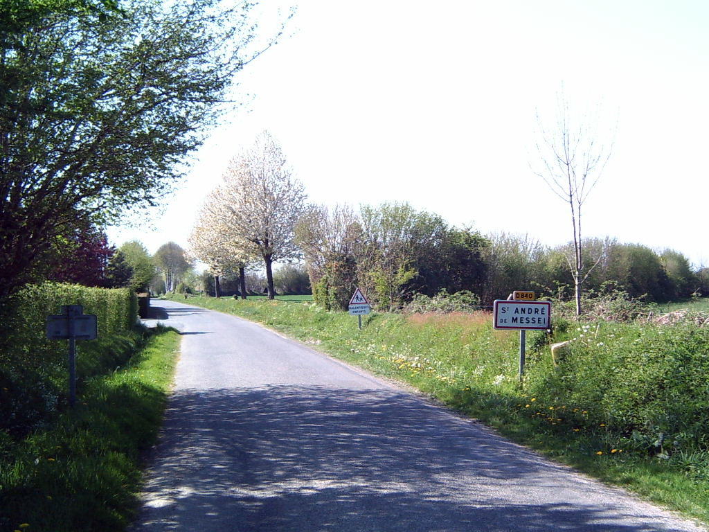 SAINT ANDRE DE MESSEI